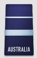 RAAF Air Vice Marshal Rank Slide